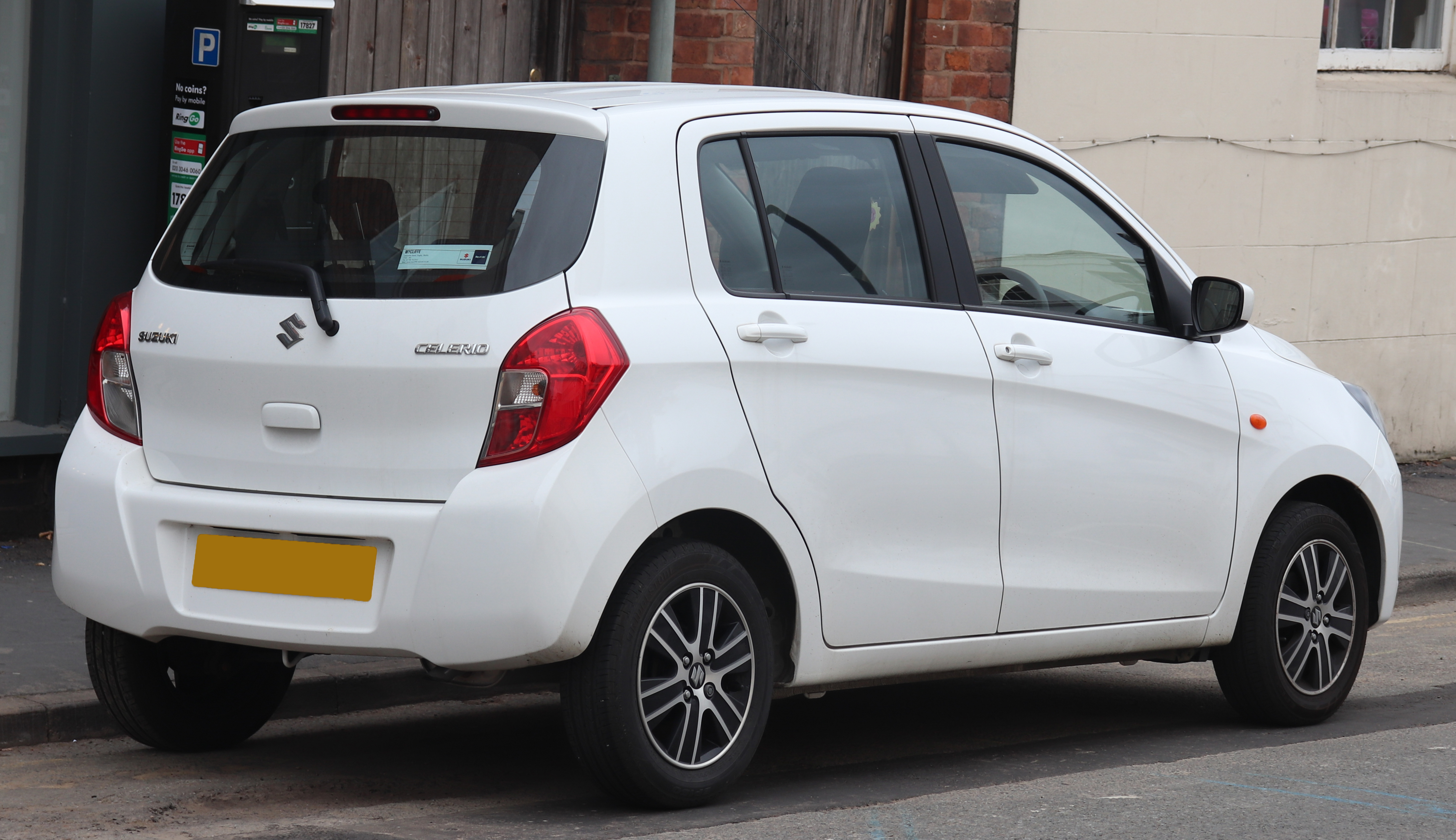 2017 Suzuki Celerio SZ4 Automatic 1.0 Rear Taken in Leamington Spa